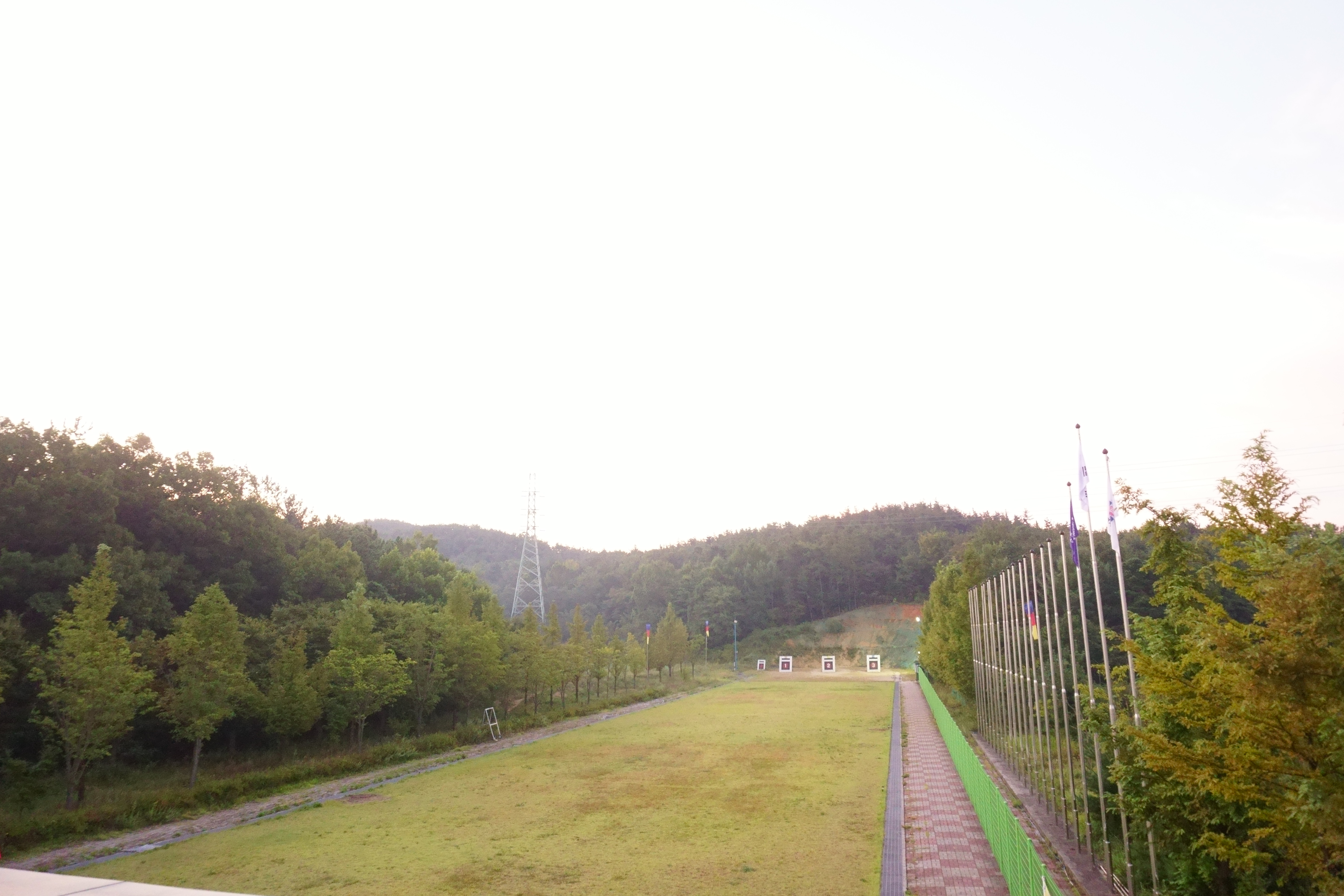 A field of Gukgung, Korean Archery